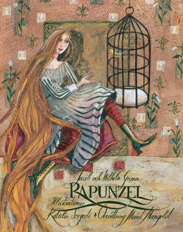 cover of the bok Rapunzel